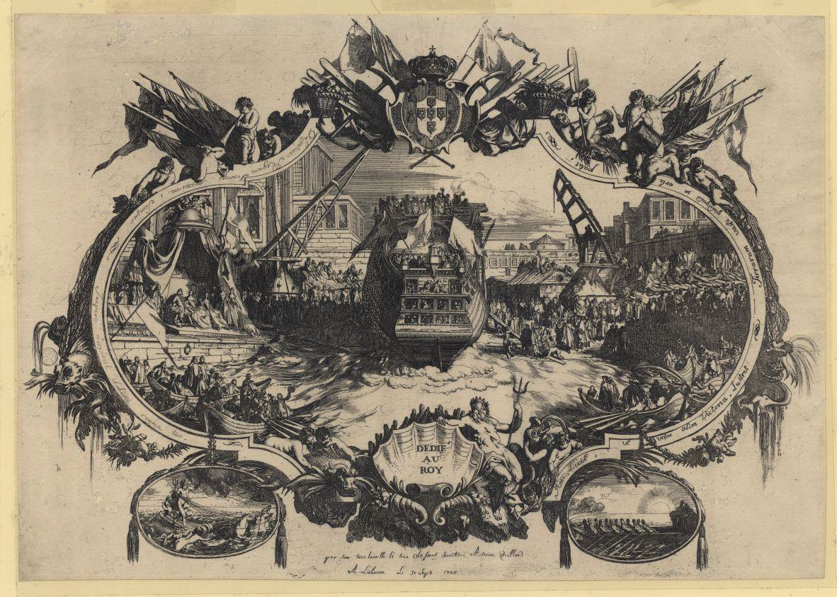 The 50-gun man-of-war Nossa Senhora da Lampadosa is launched in Lisbon on the 21st of January 1727, with the royal family (left) and the court in attendance; in an engraving from September that same year. The warship would later take part in the campaign to the River Plate in 1736-1737, as the smallest warship in the Portuguese squadron on that occasion.